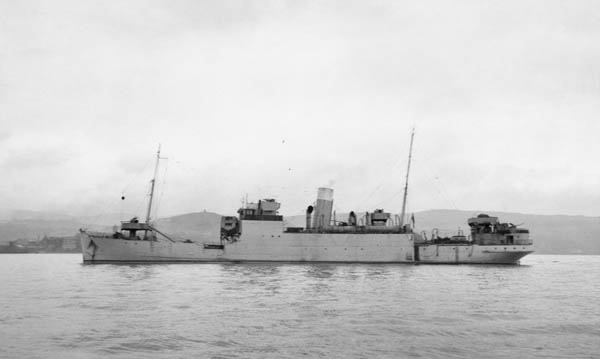 Reproduction ID: P01268 Maker: Unknown Date: 1940s This photograph is featured in Arctic Convoys, a new photographic exhibition looking at the experiences of those who served on the Arctic Convoys. It's on at the National Maritime Museum until 4 November 2012